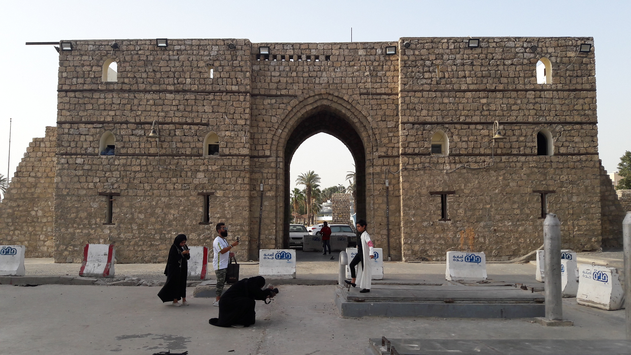 Bab Jadid, Old Jeddah